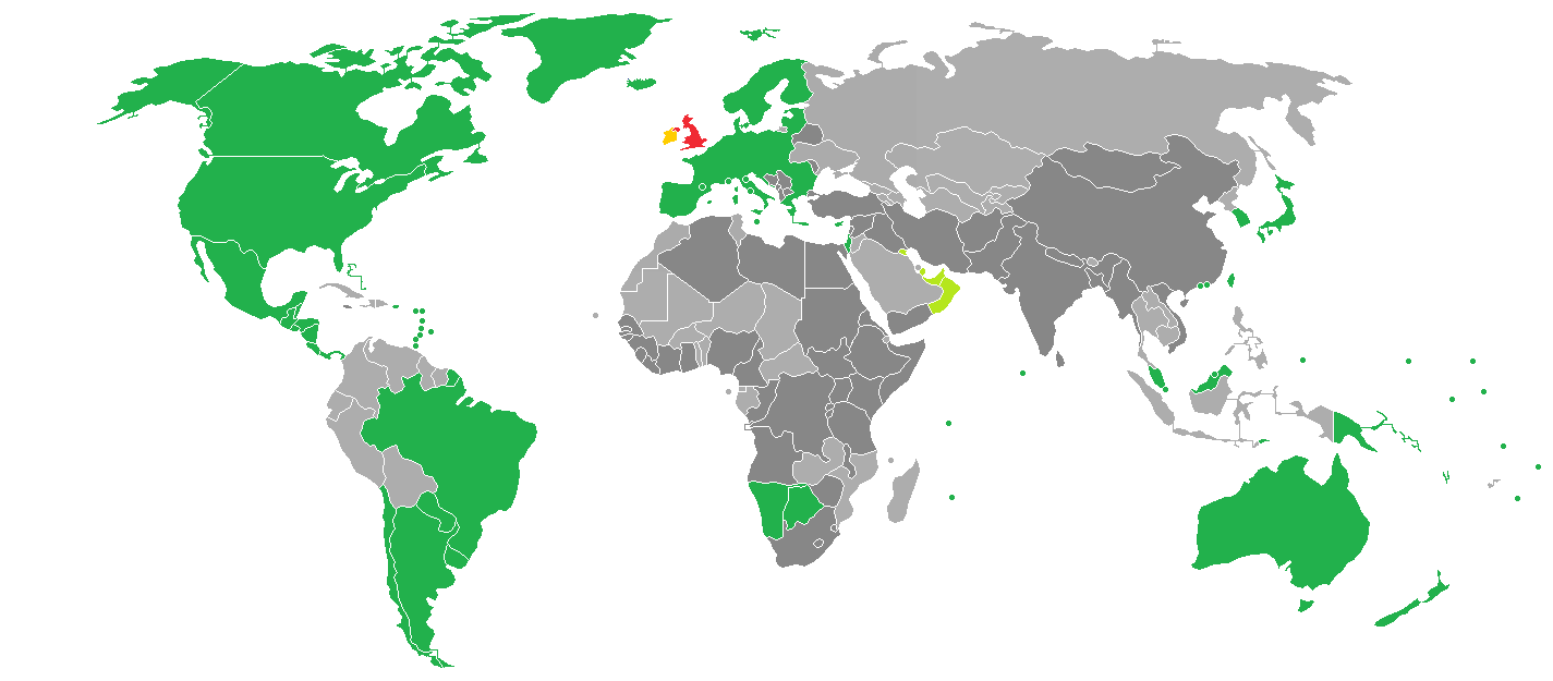 UK visa policy United Kingdom Freedom of movement (EU/EEA/CH citizens) Visa-free entry for 6 months Electronic visa waiver countries Visa required for entry, and landside transit (unless holding exemption documents); visa-free airside transit Visa required for entry, and both landside and airside transit (unless holding exemption documents)